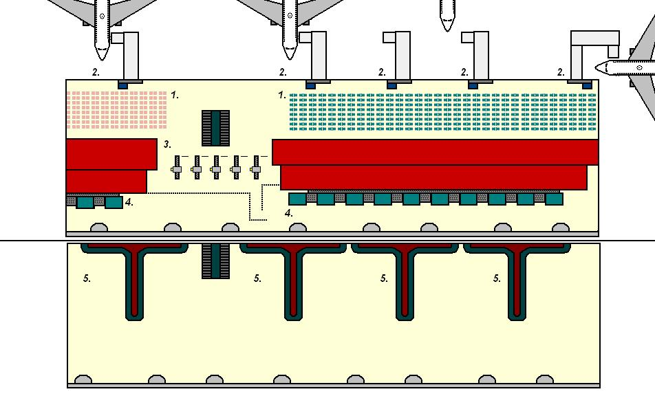 Typical design of a terminal, showing the Departures (upper half of page) and Arrivals levels. 1. Departures Lounge. 2. Gates and jet bridges. 3. Security Clearance Gates. 4 Baggage Check-in. 5. Baggage Carousels